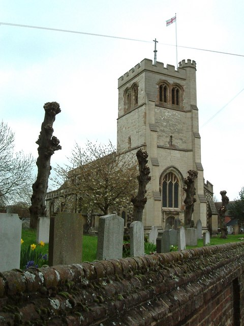 Church of England parish church of All Saints, Houghton Regis, Bedfordshire. Note the pollarded trees in the churchyard.